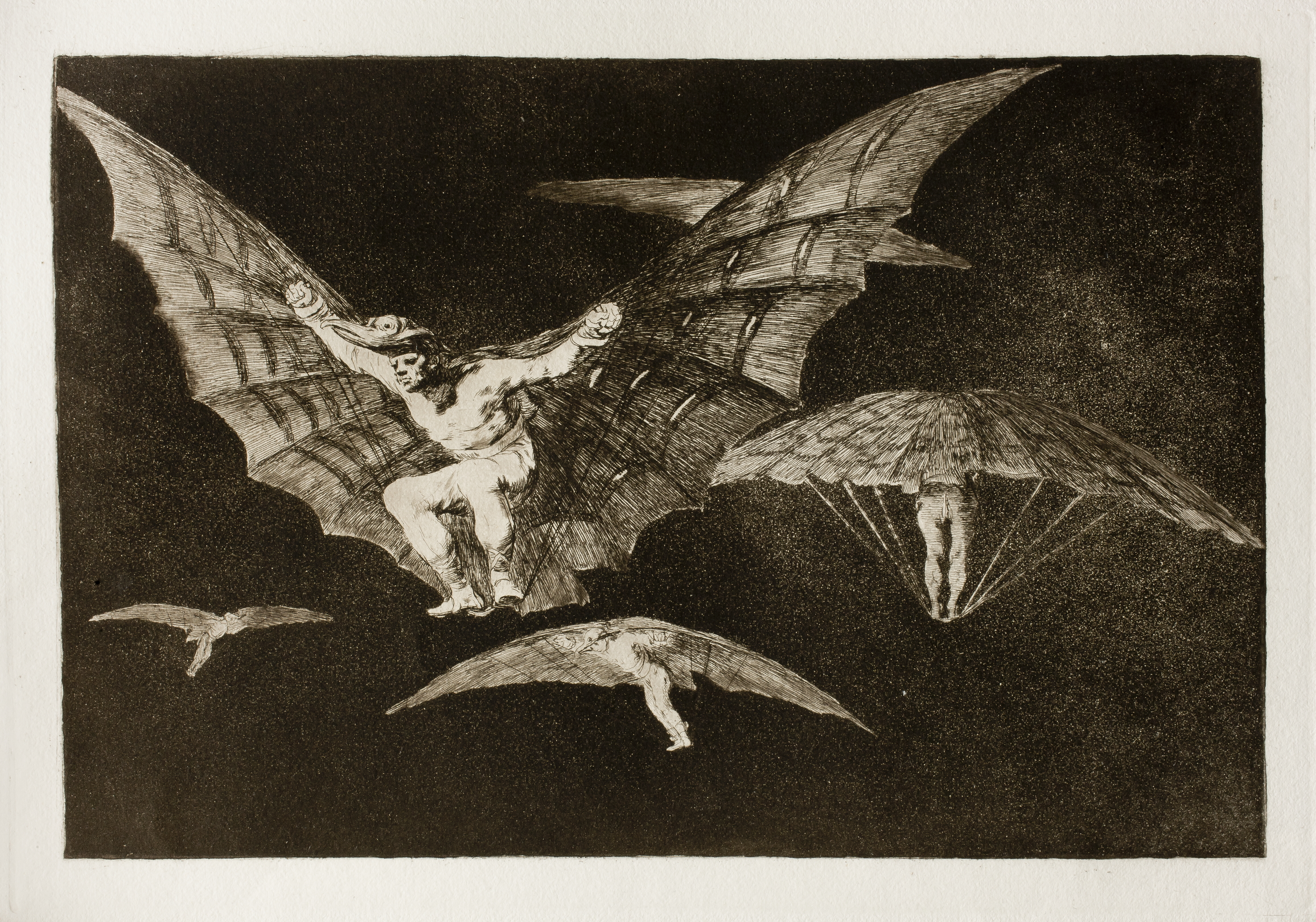 This print is work No. 13 of the "Disparates" series (1st edition, Madrid, Real Academia de Bellas Artes de San Fernando, 1864)